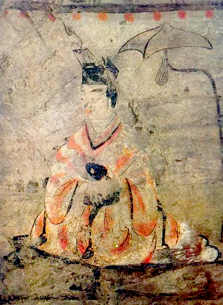 Portrait of the Lord of the manor, whose tomb this art came from, Lord Yanju. Painting from Yanju's tomb, also known as Jiuquan Dingjia Gate No. 5 Tomb (的酒泉丁家闸五号墓), located in Jiuquan County, Gansu Province, China.